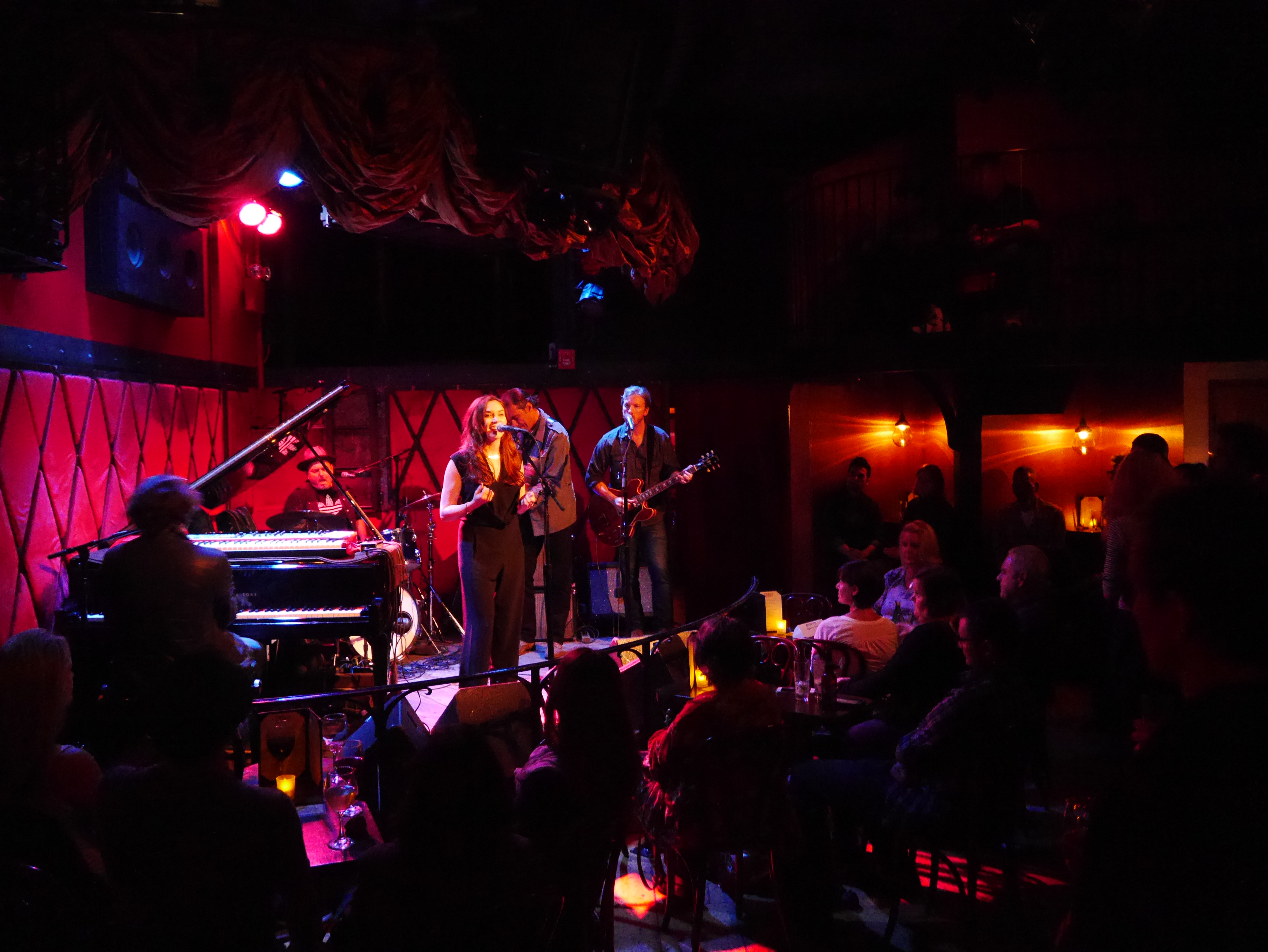 Jazz / soul / blues singer Sunny Ozell and her band performing live at Rockwood Music Hall in New York on 27th September 2015.